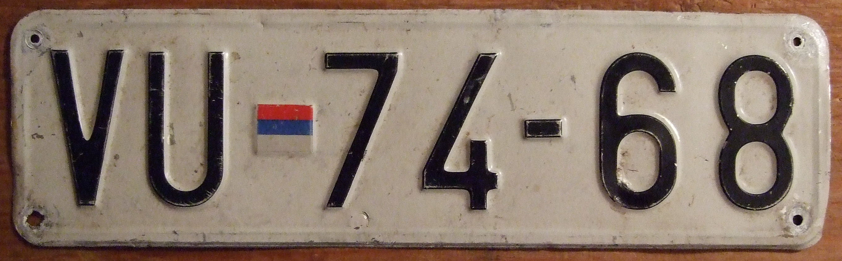 License plate of the Republic of Serbian Krajina 1992-1995